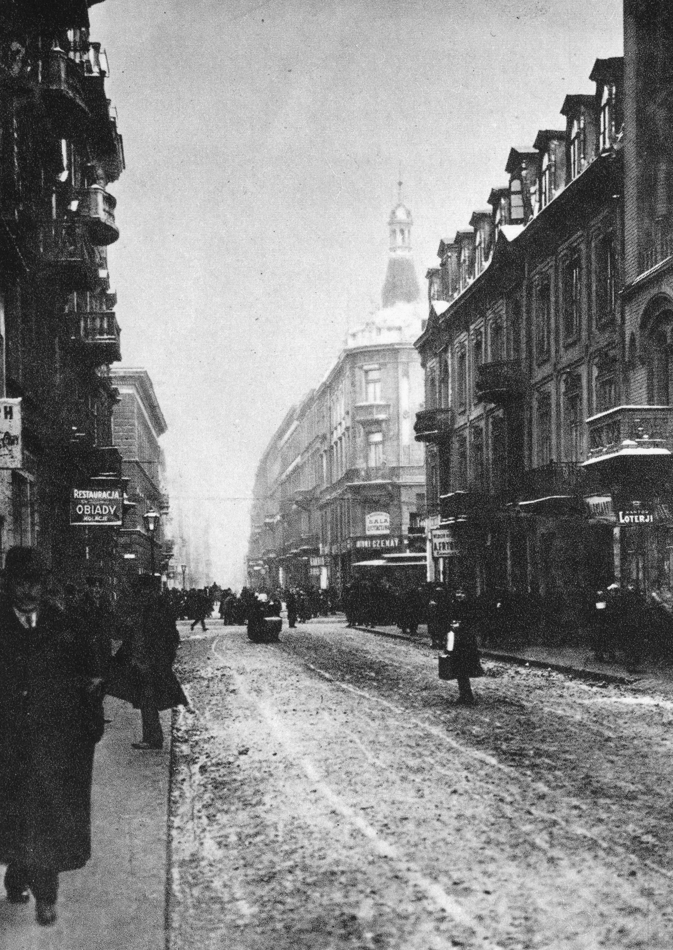 Chmielna Street near Zielna Street, view to the east (Marszałkowska Street)